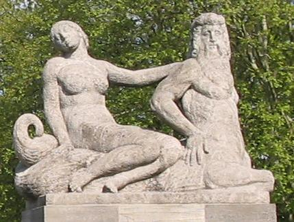 The "Rudolph-Wilde-Park" in Berlin; the statue "Triton and Nymphe" at the "Carl-Zuckmayer-Bridge"